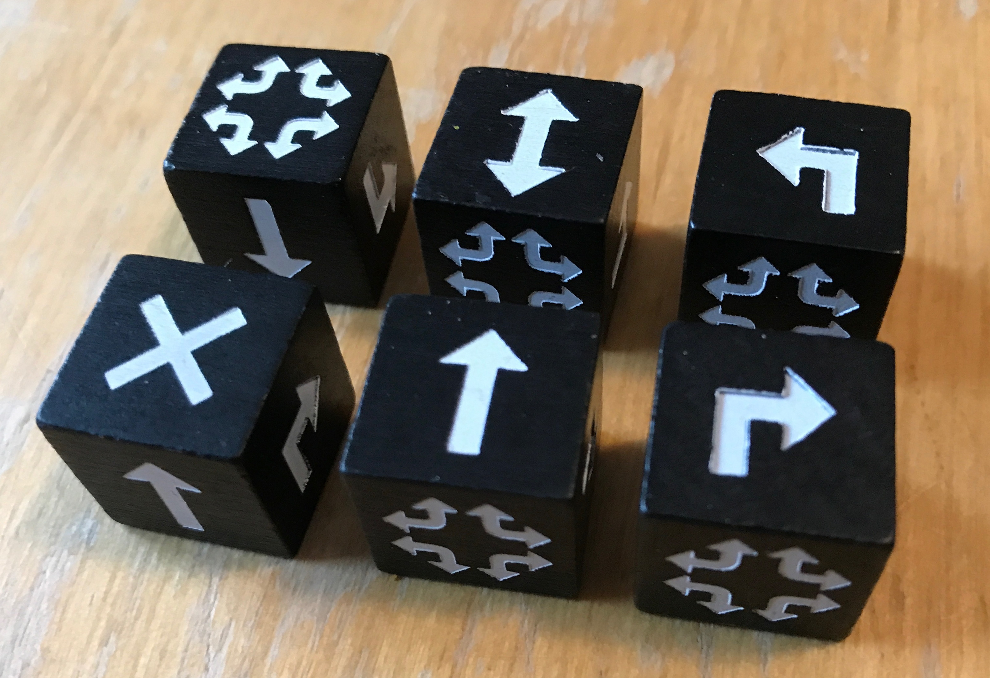 set of the board game Barragoon